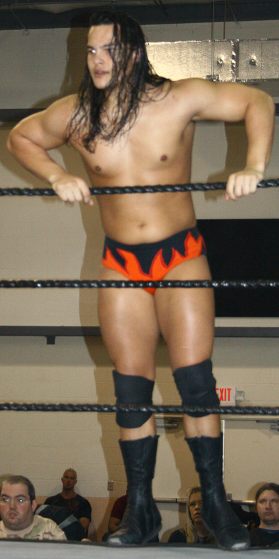 An image of professional wrestler Bo Dallas.